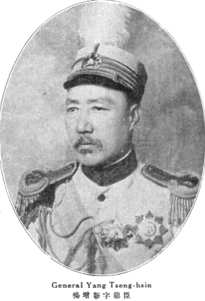 Han Chinese governor of Xinjiang Yang Zengxin. Born in 1859 and died in 1928.